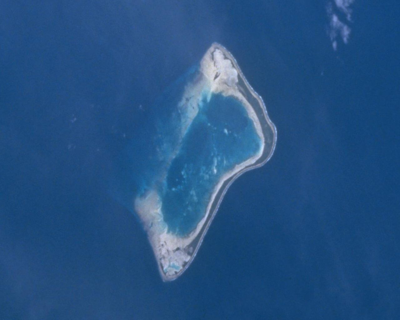 Astronaut photo of Tarawa (upper island) and Maiana, two of the Gilbert Islands, Republic of Kiribati.